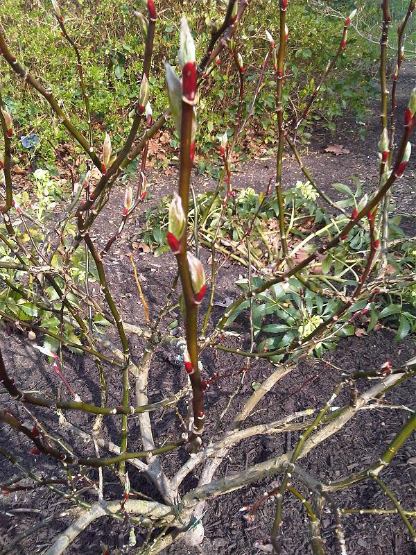 Salix fargesii at Kew Gardens, England.